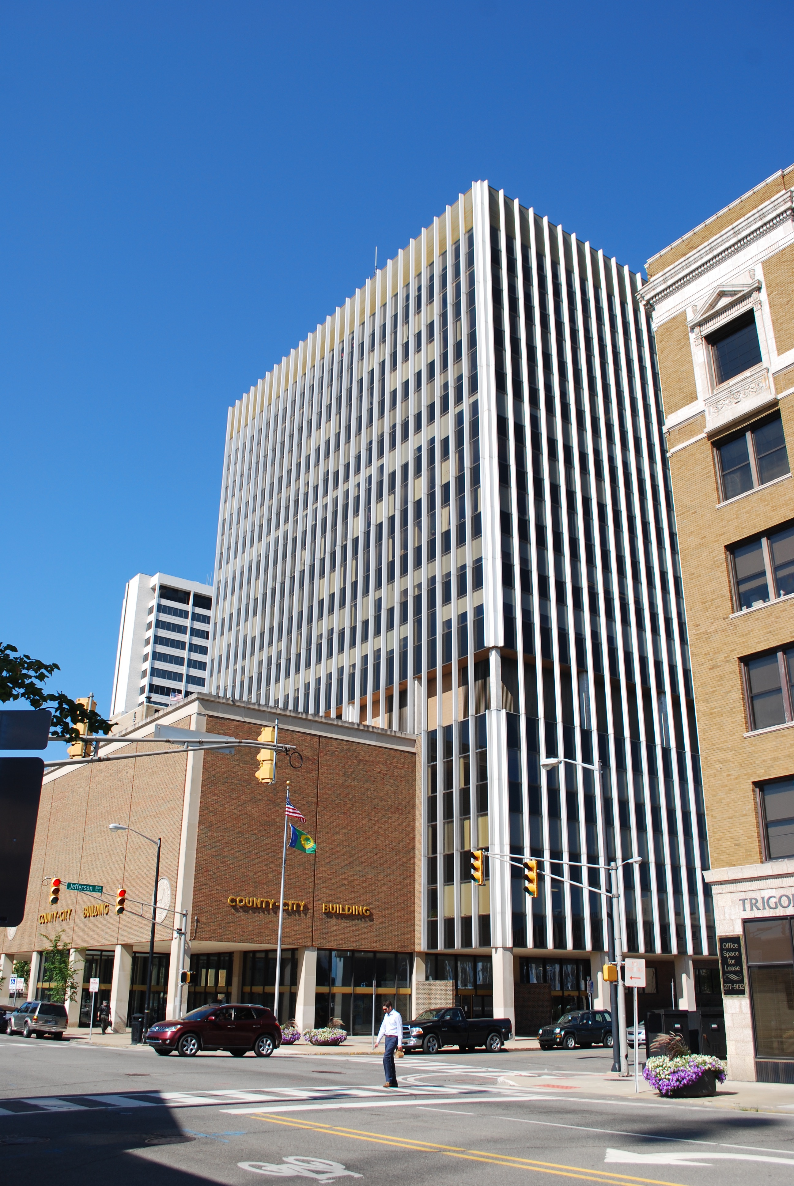 The County-City Building in downtown South Bend, Indiana. This building houses the Office of the Mayor and many other municipal and county offices. Photo taken 30 July 2015.